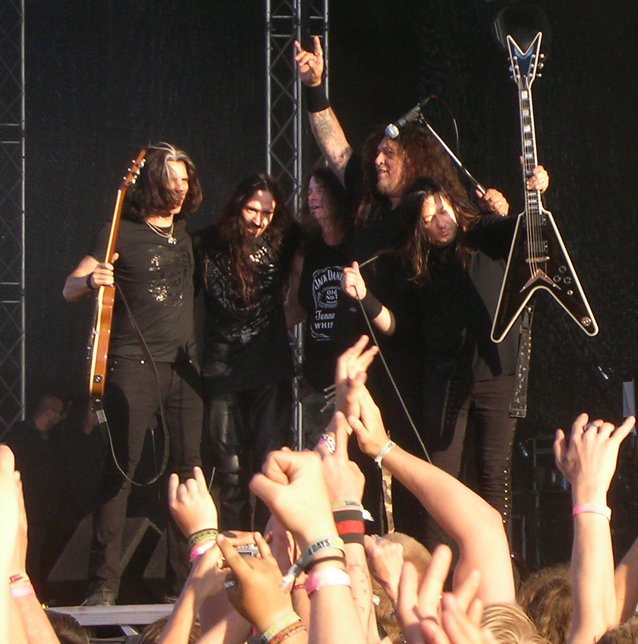 American thrash metal band Testament at Sweden Rock Festival, 2008.